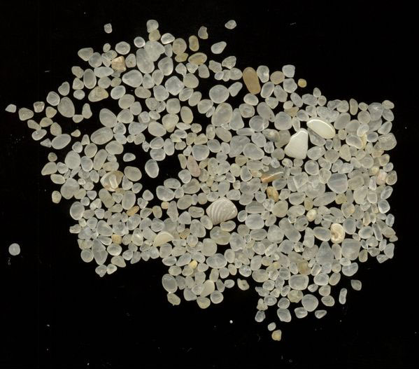 Coarse grained beach sediment. Origin: Itaipuaçu Beach, Rio de Janeiro, Brasil. Well rounded grains. Composition: quartz and shell fragments (average diameter = 0,3 x 0,4 cm).